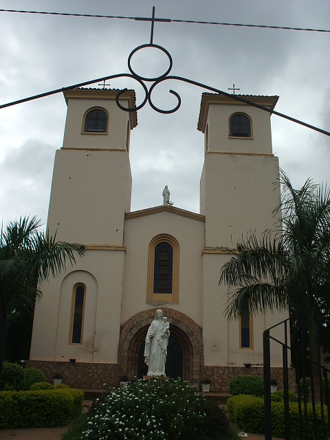 The Catholic cathedral of Coronel Oviedo, a City in Paraguay